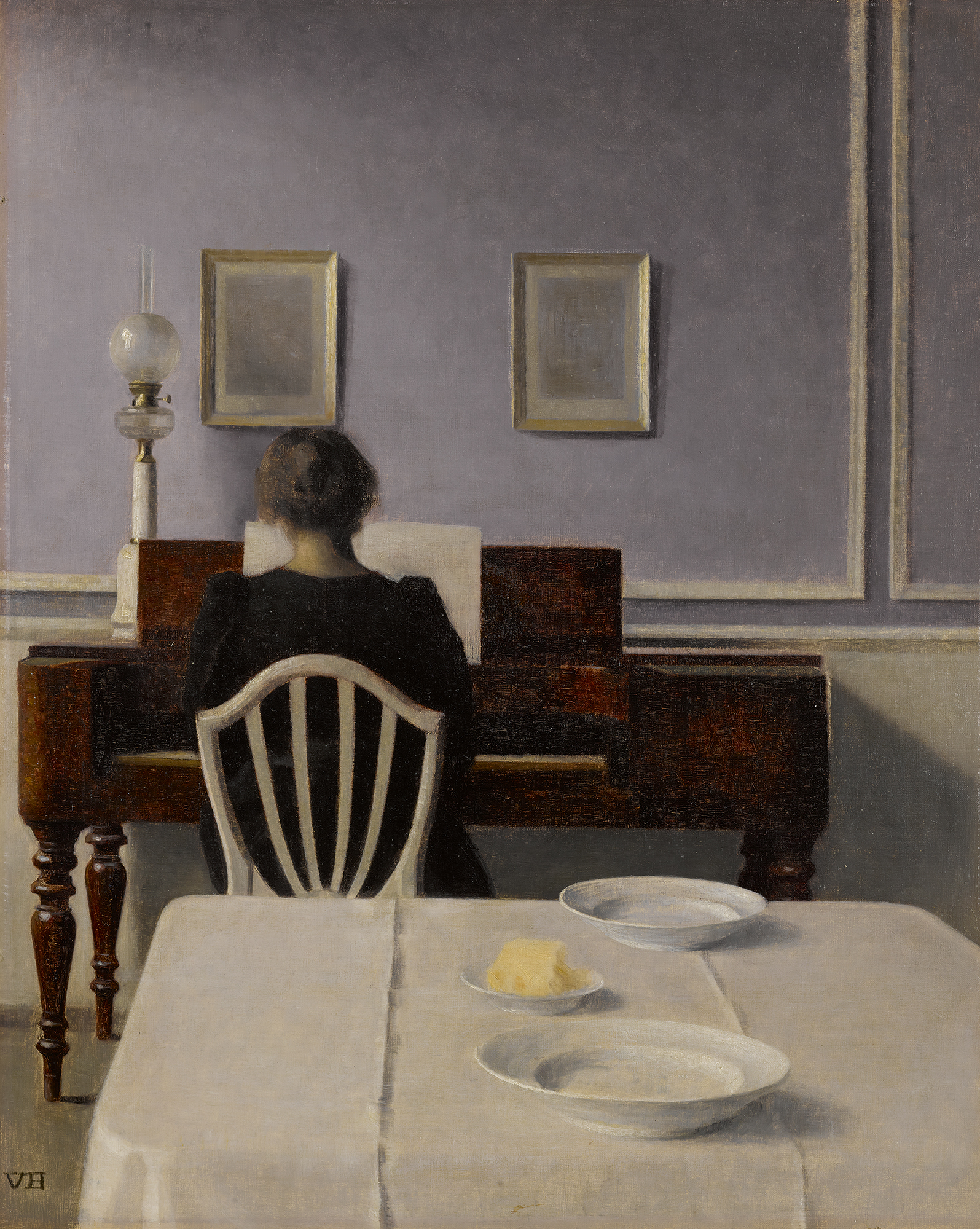 Vilhelm Hammershøi, Interior with Woman at Piano, Strandgade 30, Oil on canvas, 55.9 x 44.8 cm, painted in 1901.